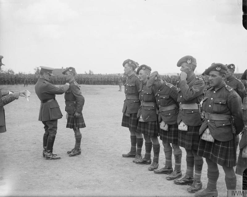 The British Army on the Western Front, 1914-1918 General Ivor Maxse, the Commander of the 18th Corps, presenting medals to men of the 152nd (1st Highland) Brigade, 51st Division at St. Jans-Ter-Brizen, 21 August 1917.